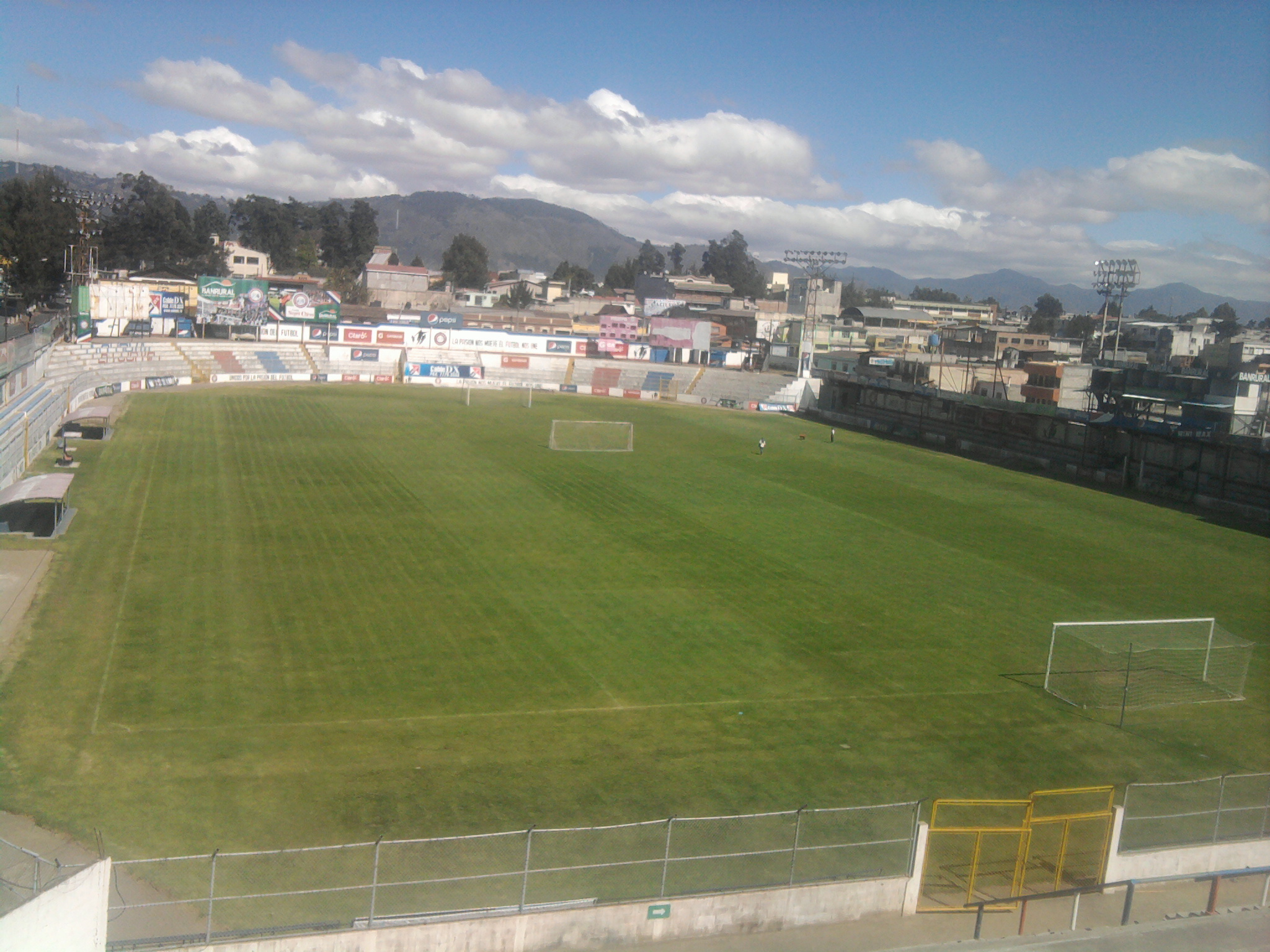 Stadium Mario Camposeco